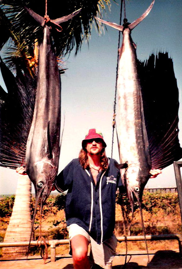 Wille Crafoord